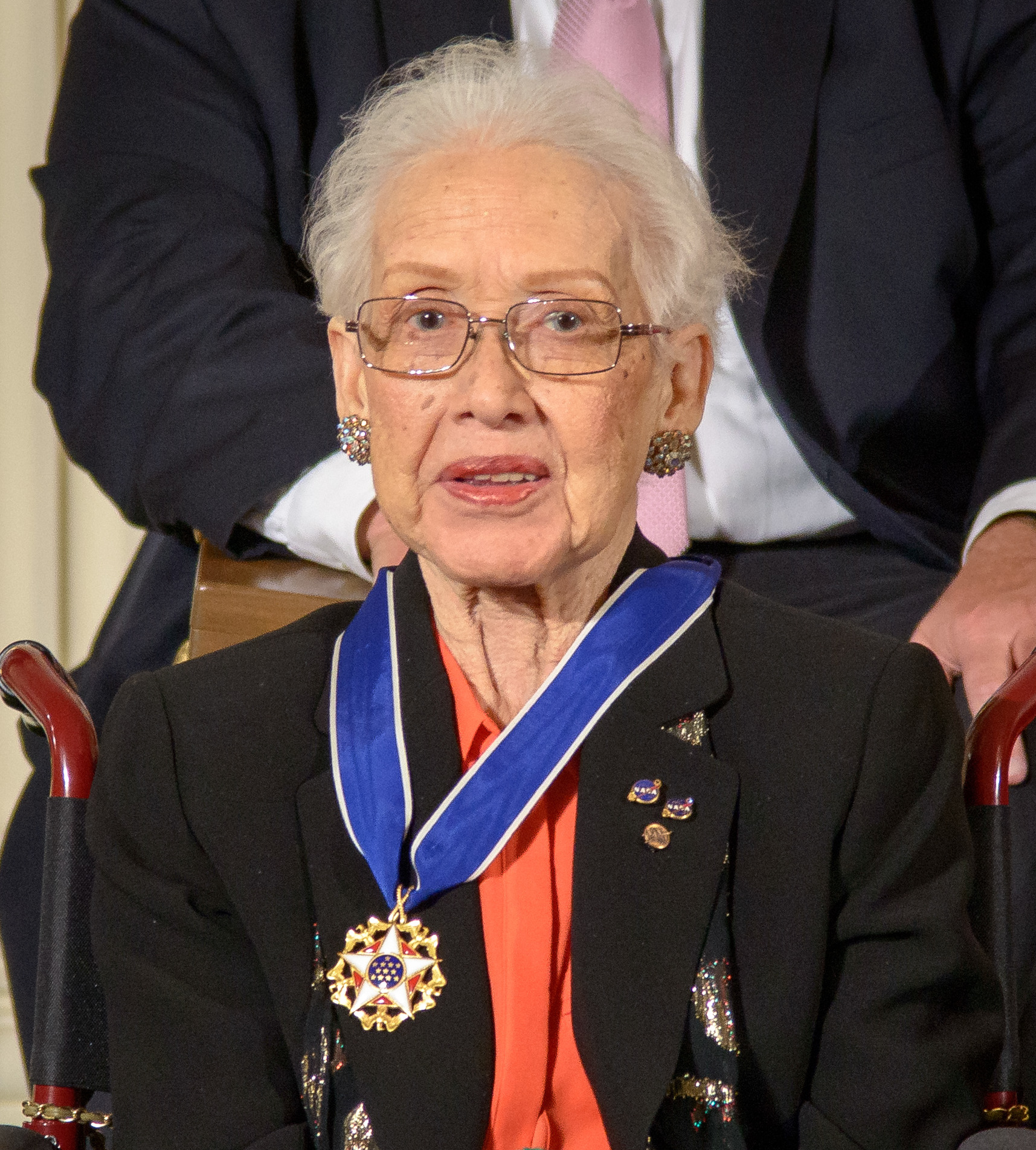 Former NASA mathematician Katherine Johnson is seen after President Barack Obama presented her with the Presidential Medal of Freedom, Tuesday, Nov. 24, 2015, during a ceremony in the East Room of the White House in Washington. Photo Credit: (NASA/Bill Ingalls) Johnson's computations have influenced every major space program from Mercury through the Shuttle program. Johnson was hired as a research mathematician at the Langley Research Center with the National Advisory Committee for Aeronautics (NACA), the agency that preceded NASA, after they opened hiring to African-Americans and women. Johnson exhibited exceptional technical leadership and is known especially for her calculations of the 1961 trajectory for Alan Shepard’s flight (first American in space), the 1962 verification of the first flight calculation made by an electronic computer for John Glenn’s orbit (first American to orbit the earth), and the 1969 Apollo 11 trajectory to the moon. In her later NASA career, Johnson worked on the Space Shuttle program and the Earth Resources Satellite and encouraged students to pursue careers in science and technology fields.